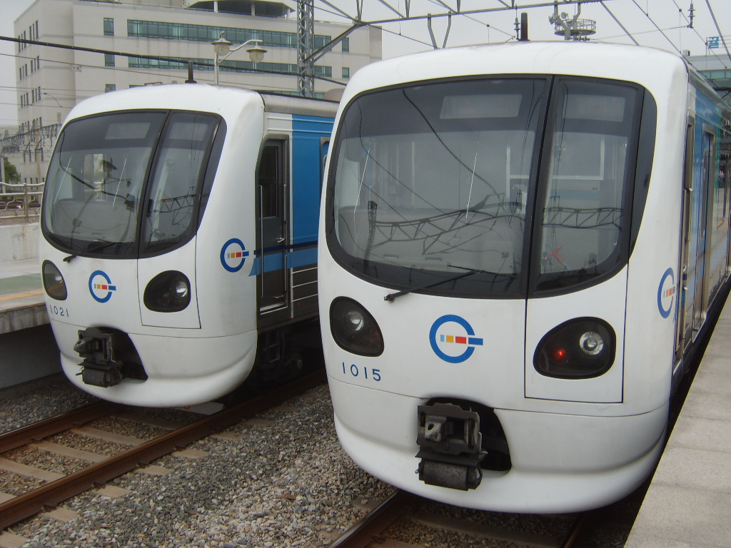 The trains of Incheon Rapid Trainst Corporation line 1 at Gyulhyeon Station.